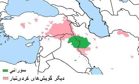 based on sourses Laki is a branch of southern Kurdish. i added Lakish parts.